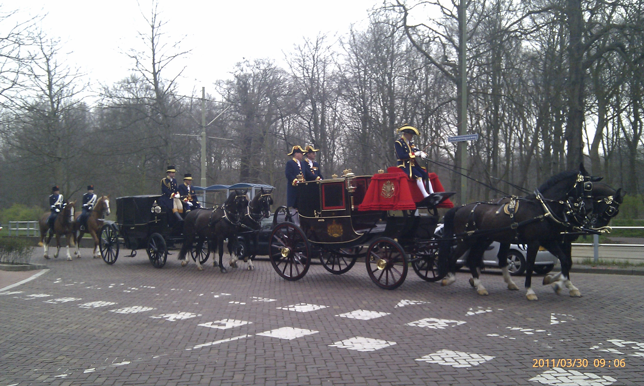 An ambassador delivers a letter of credence to the Queen. Occasionally ... you may come across a procession of couches from the [Netherland's] Royal Stables. These are bringing a new ambassador of a sovereign nation to meet the Queen, to deliver their letter of credence. The ambassador will be received by an honor guard at palace Noordeinde [in Den Haag]. Today the Queen was expecting the ambassadors of Slowenia and the Ukraine, so either of these are in the coach pictured above.